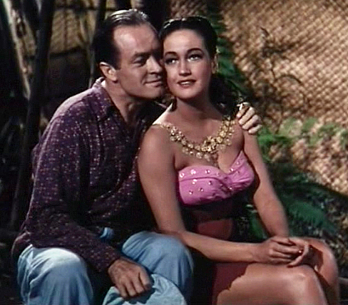 Cropped screenshot of Bob Hope and Dorothy Lamour from the film Road to Bali.